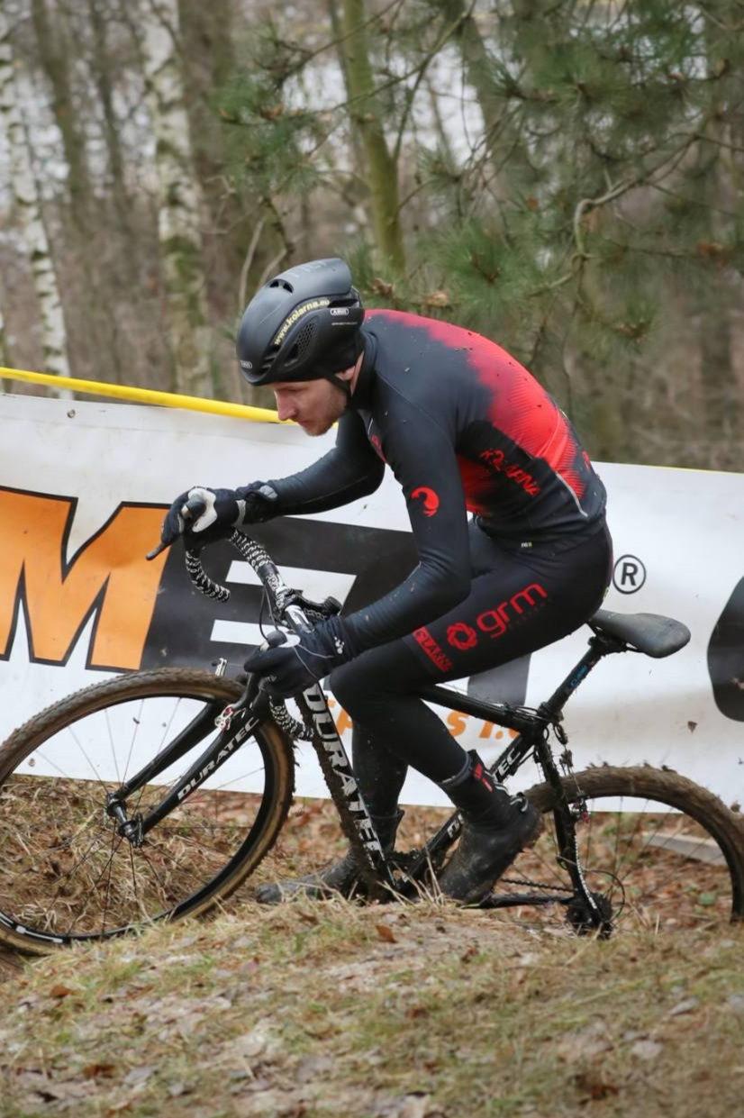 Lubomir Petrus